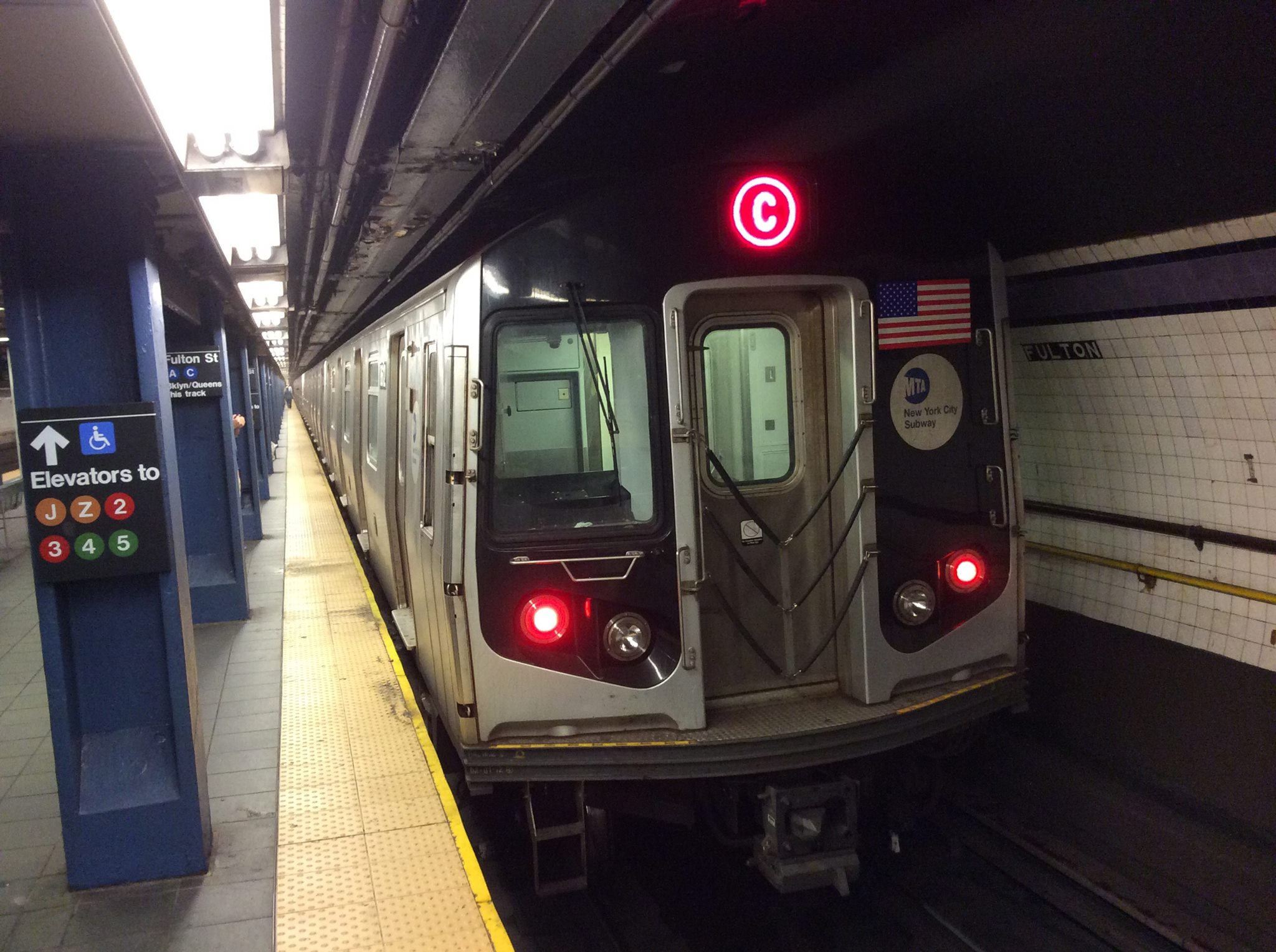 Southbound R160 C train ready to leave Fulton St.